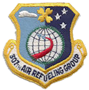 Emblem of the 307th Air Refueling Group (SAC)